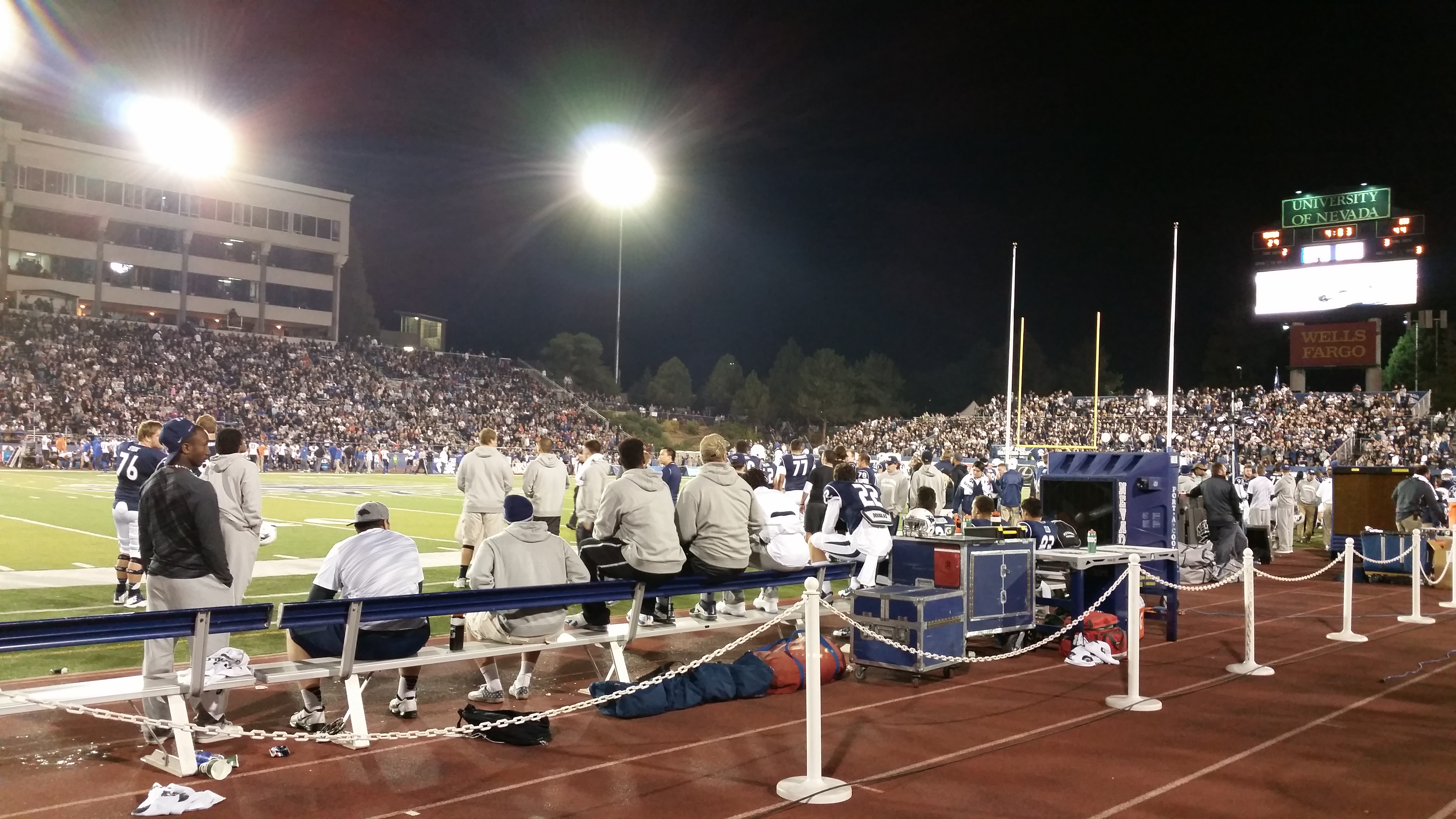 This is a players' bench view from a 2014 Wolf Pack football game.